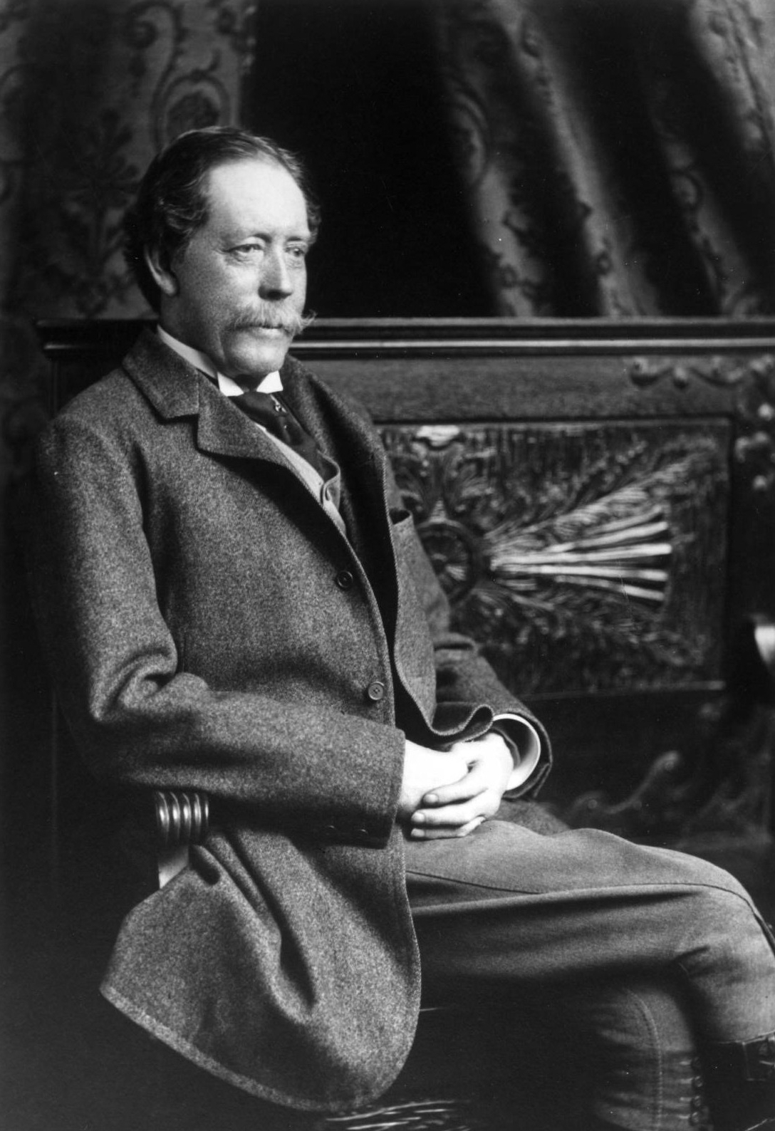 William Jackson Palmer 1836-1909, founder of Colorado Springs, Colorado, builder of several railroads including the D&RGW.